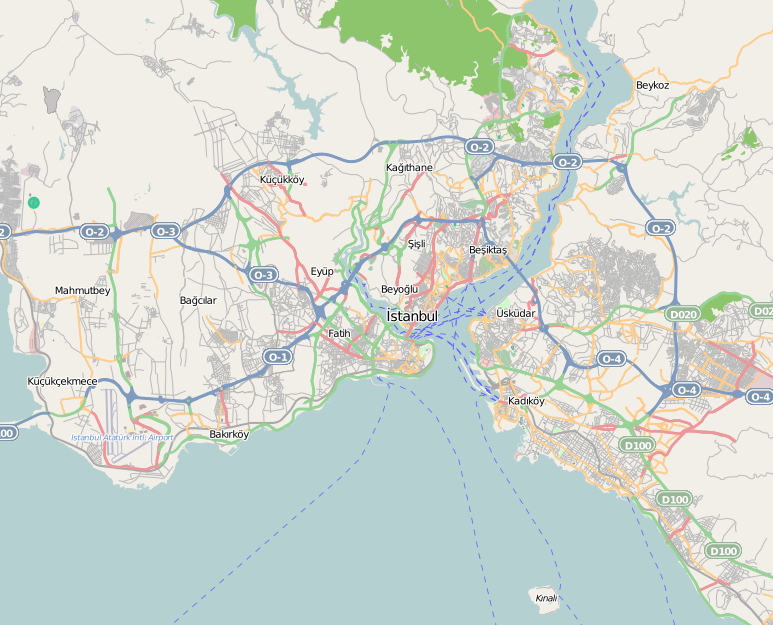 Location map of Istanbul